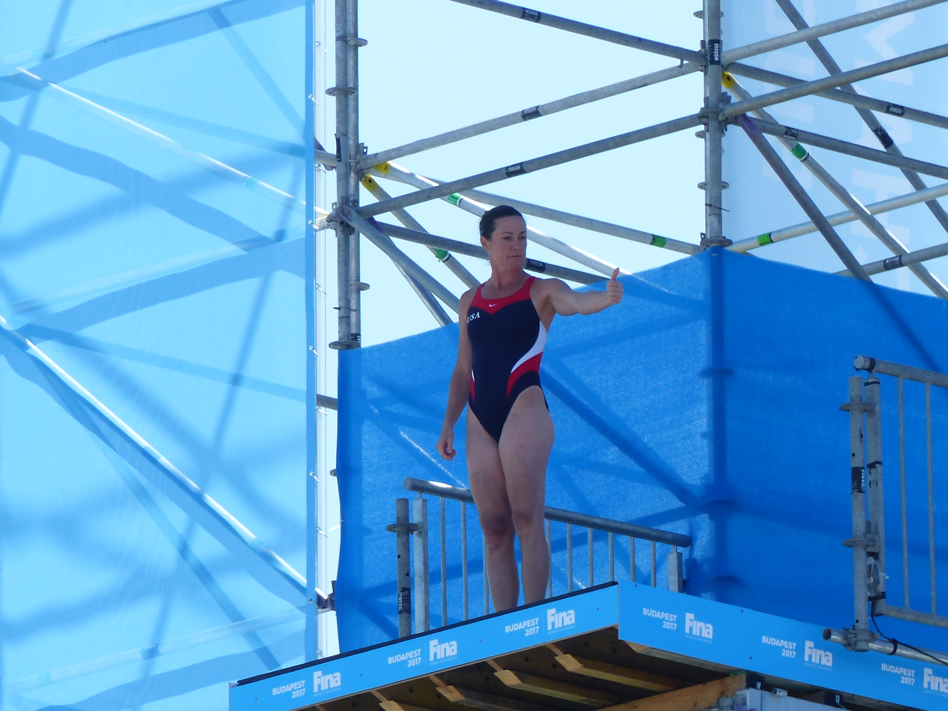 Ginger Huber. Taken on Saturday, 29th of July, 2017. 2017 World Aquatic Championships, Budapest, Hungary, Central Europe. Women’s 20m High Dive Final Resultsː Rhiannan Iffland, AUS, 320.70, Adriana Jimenez, MEX, 308.90, Yana Nestsiarava, BLR, 303.95, Tara Tira, USA, 299.50, Anna Bader, GER, 283.40